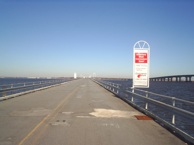 U.S. Route 9 in New Jersey crossing the closed Beeseley's Point Bridge. Because the bridge is closed, U.S. Route 9 traffic is detoured onto the bridge of the Garden State Parkway, which is seen to the east in this photo.